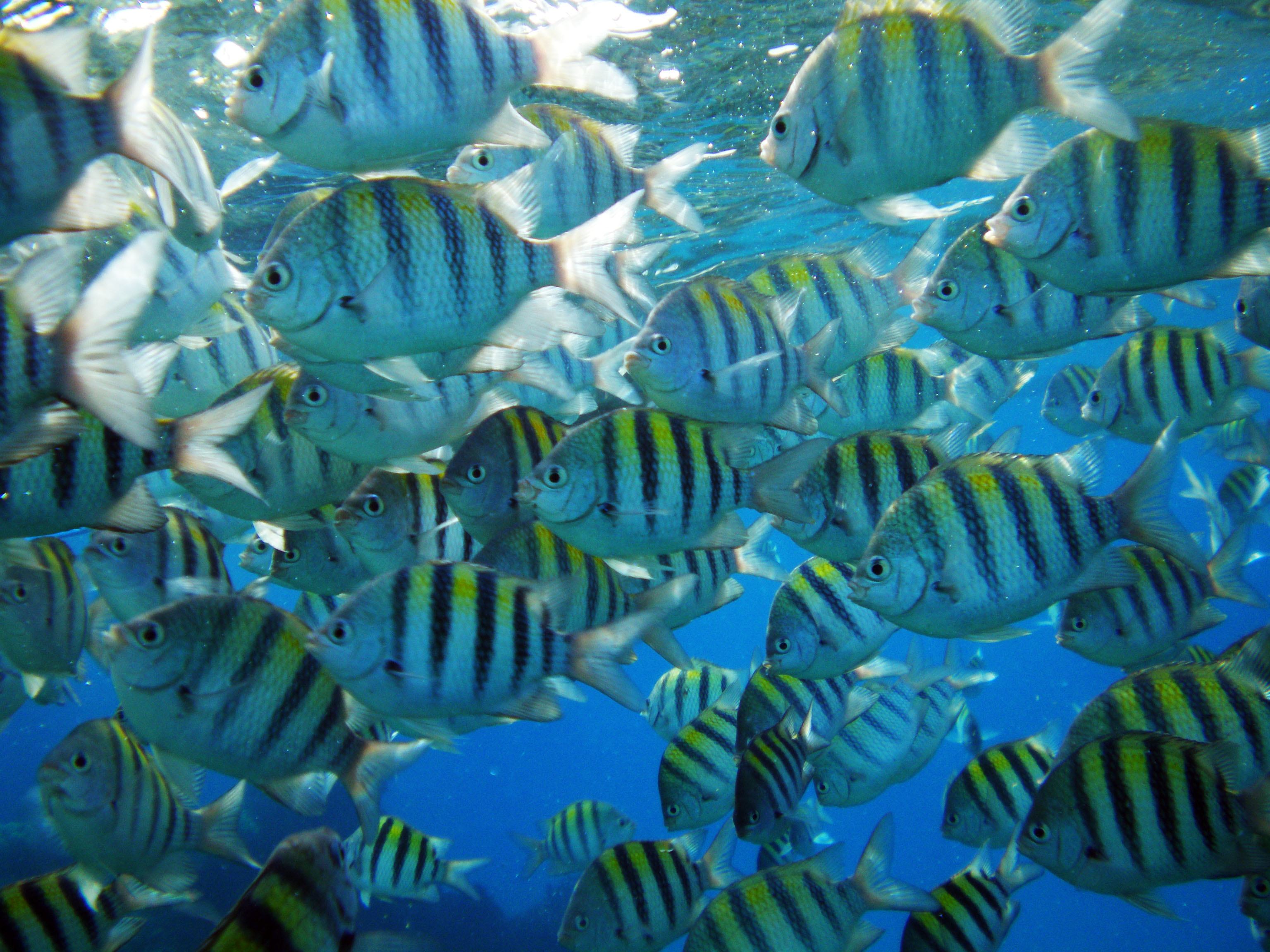 Sergeant Major fish at Jamaica